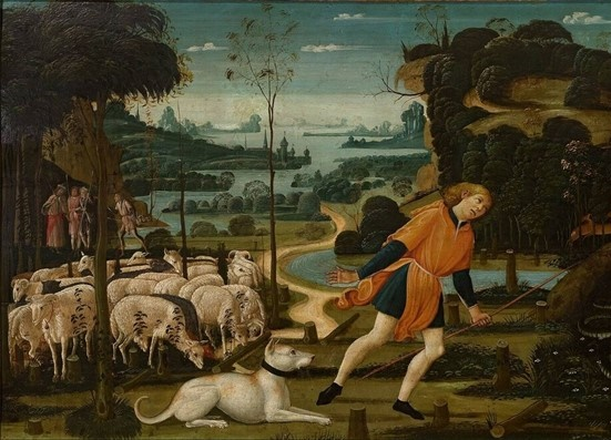 Fragment from Orpheus, Eurydice and Aristaeus paint by the artist Jacopo del Sellaio. Medieval Alaunt guarding sheep. Livestock guardian dog art.